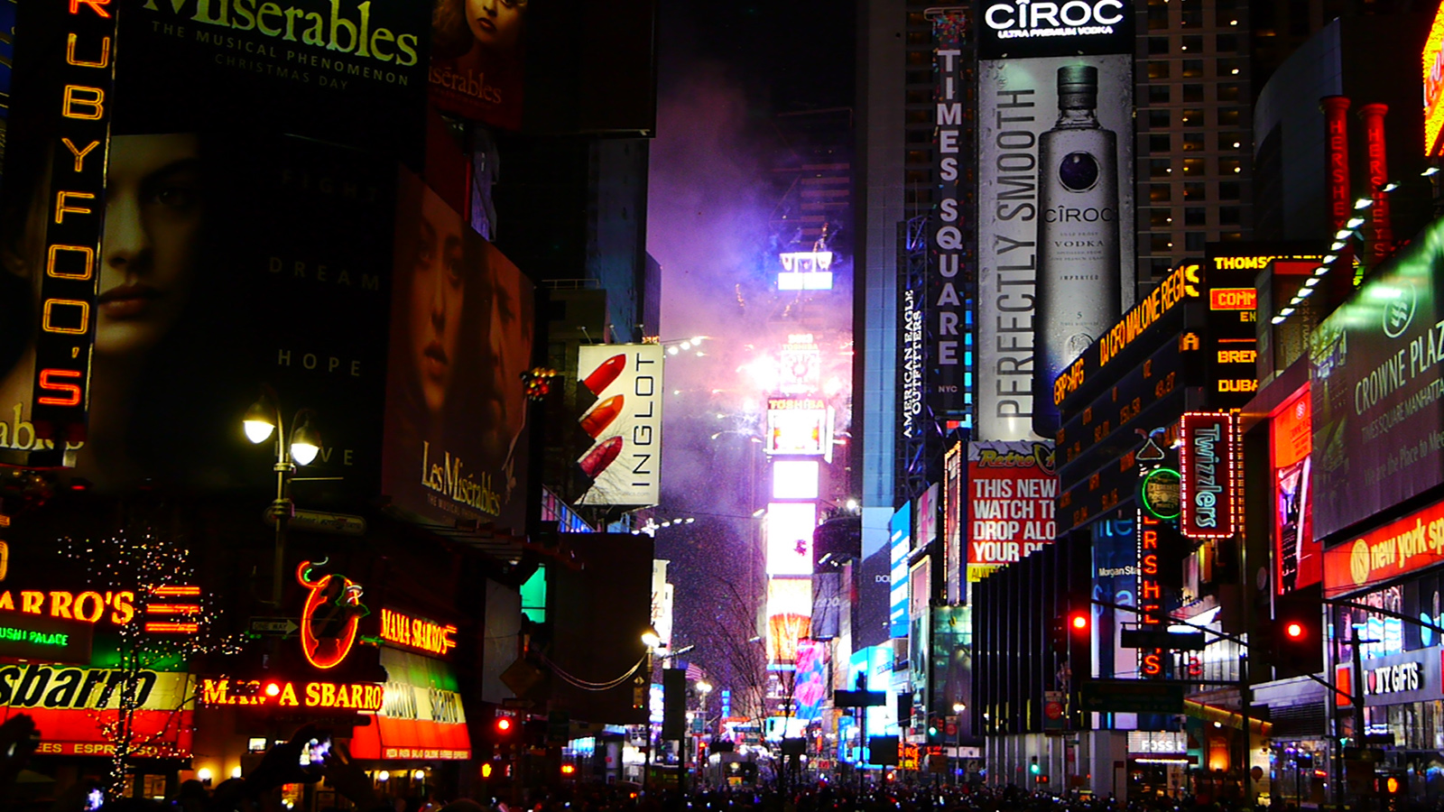 Countdown to 2013 at Times Square